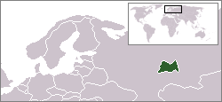 Category:Maps of the Russian republics Category:Maps of Tatarstan